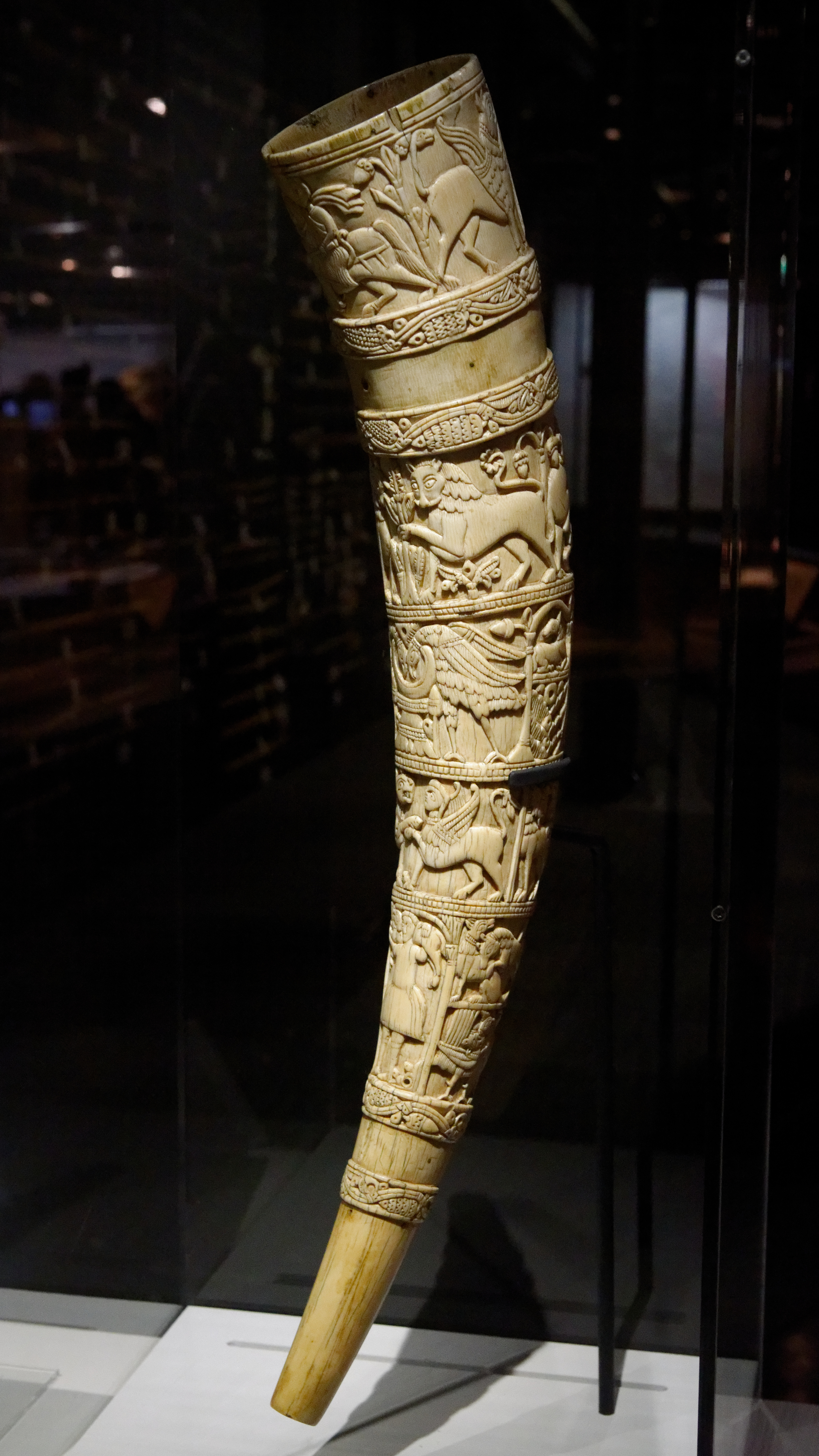 Olifant found ca. 1400 by shepherds in a cave known as “Balme de Roland”, lated deposited to the Carthusian monastery of Portes in Bénonces, Ain department, eastern France. Made in the 11th century in Salerno or Amalfi, Italy.